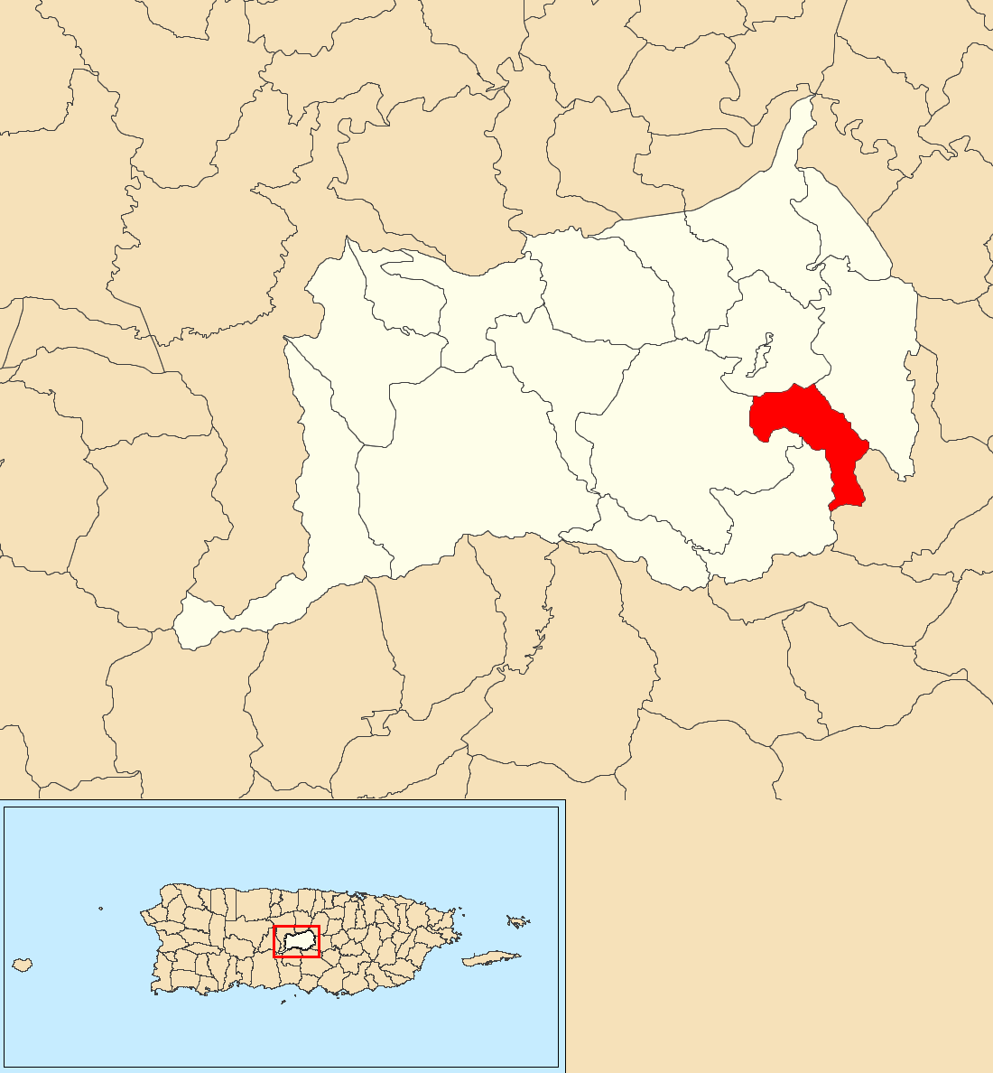 Sabana, Orocovis, Puerto Rico locator map